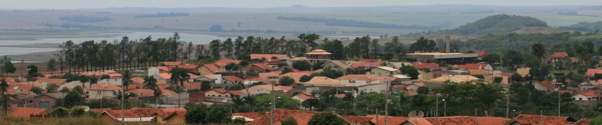 Part of Porecatu city at Paraná state, Brazil. At left, it is possible to see part of the dam created by the Capivara hydroeletric power plant.